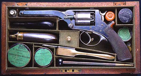 Tranter revolver, in 1863 given to Confederate Major General James Ewell Brown “Jeb” Stuart by his Prussian (German) Staff Major Heros von Borcke (1835-1895)